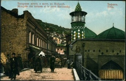 Russian Empire postcard, Tatar (azerbaijanian) mosque and bridge on Maidan square. Tiflis